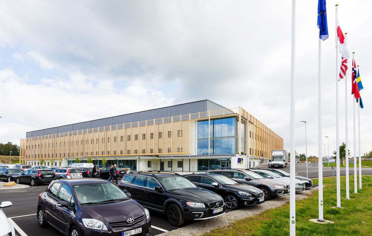 AP&T Headquarters at the Rönnåsen commercial area in Ulricehamn, Sweden.